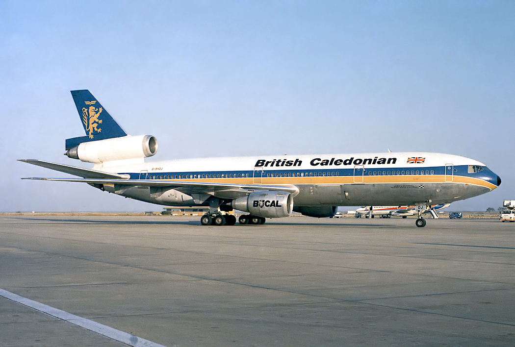 British Caledonian McDonnell Douglas DC-10-30 G-BHDJ at Faro Airport